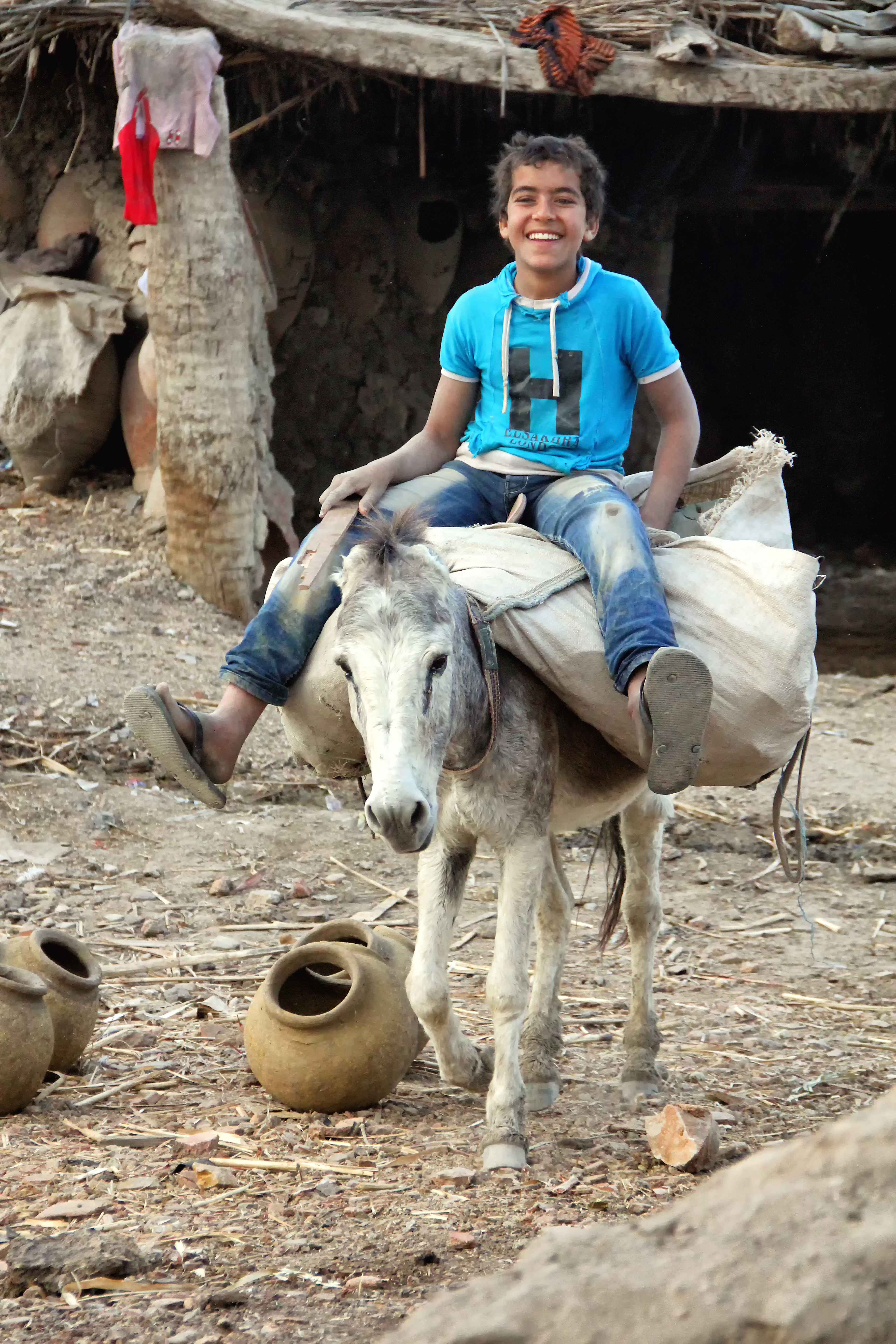 A boy from the village of Nazla, which is famous for making pottery - Fayoum - Egypt This is an image with the theme "Africa on the Move or Transport" from: Egypt